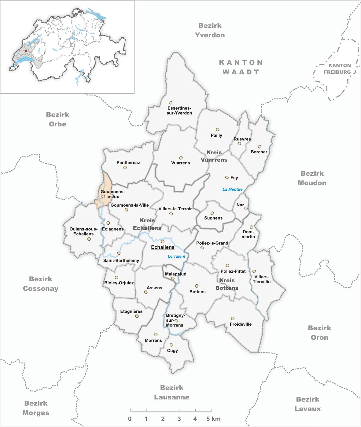 Municipality Goumoens-le-Jux